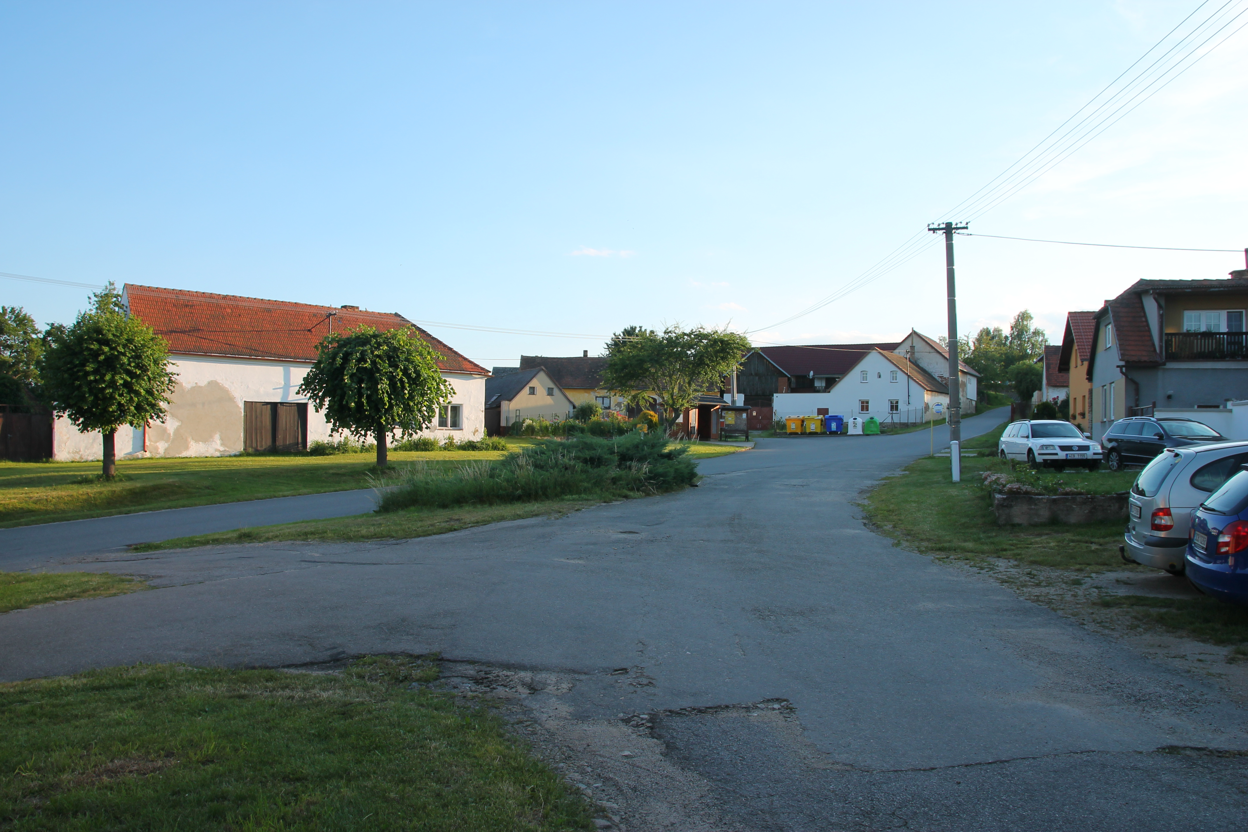 Dvory u Vlachova Březí